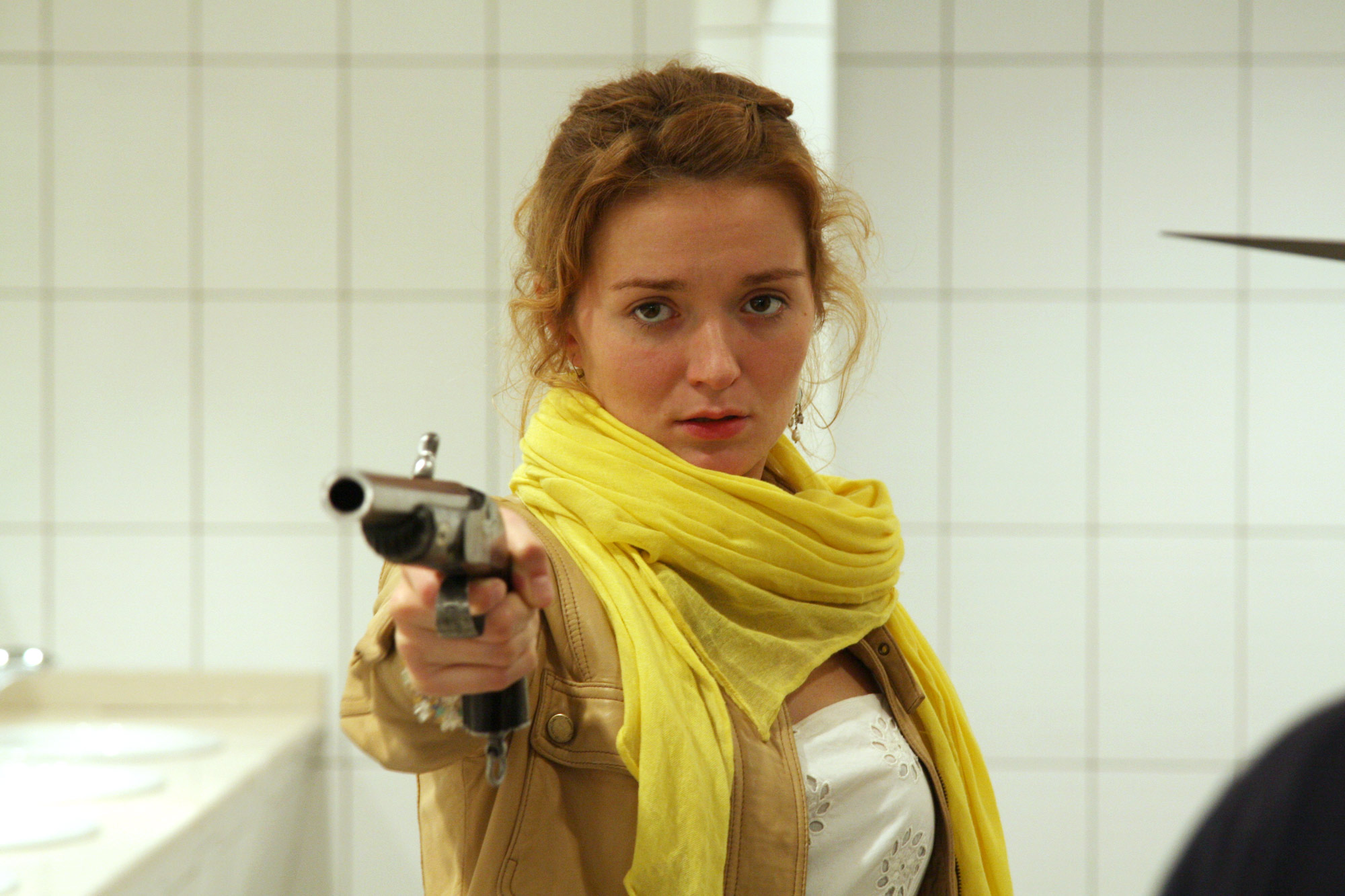 Nadezhda Mikhalkova